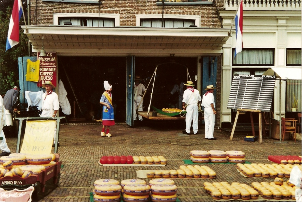 Traditional cheese market in Edam. Actually, it's a show for tourists, a re-enactment of the true traditional market as it was once held.